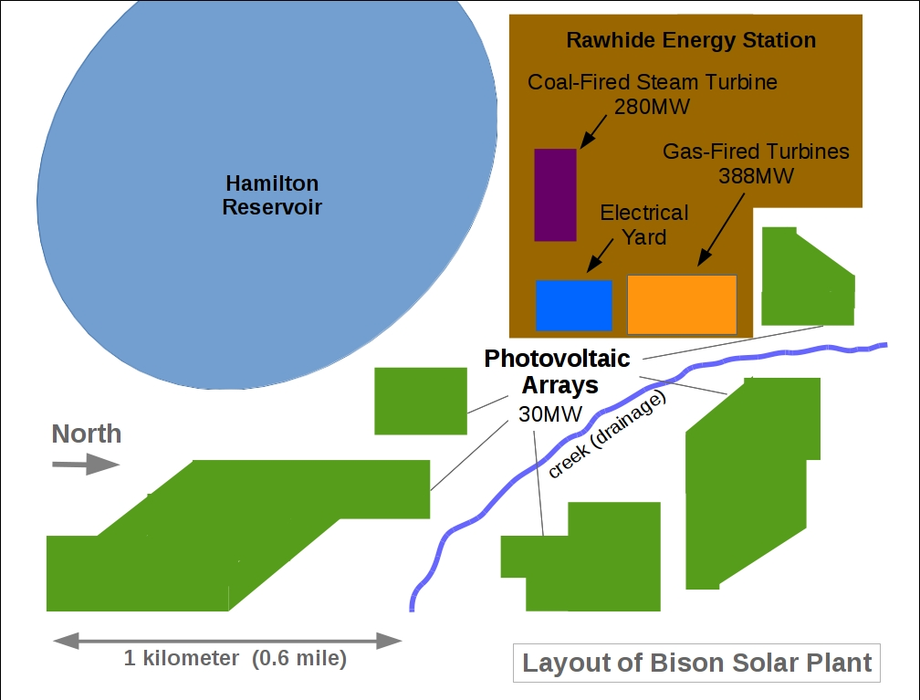 This image shows the general layout and features of the facility